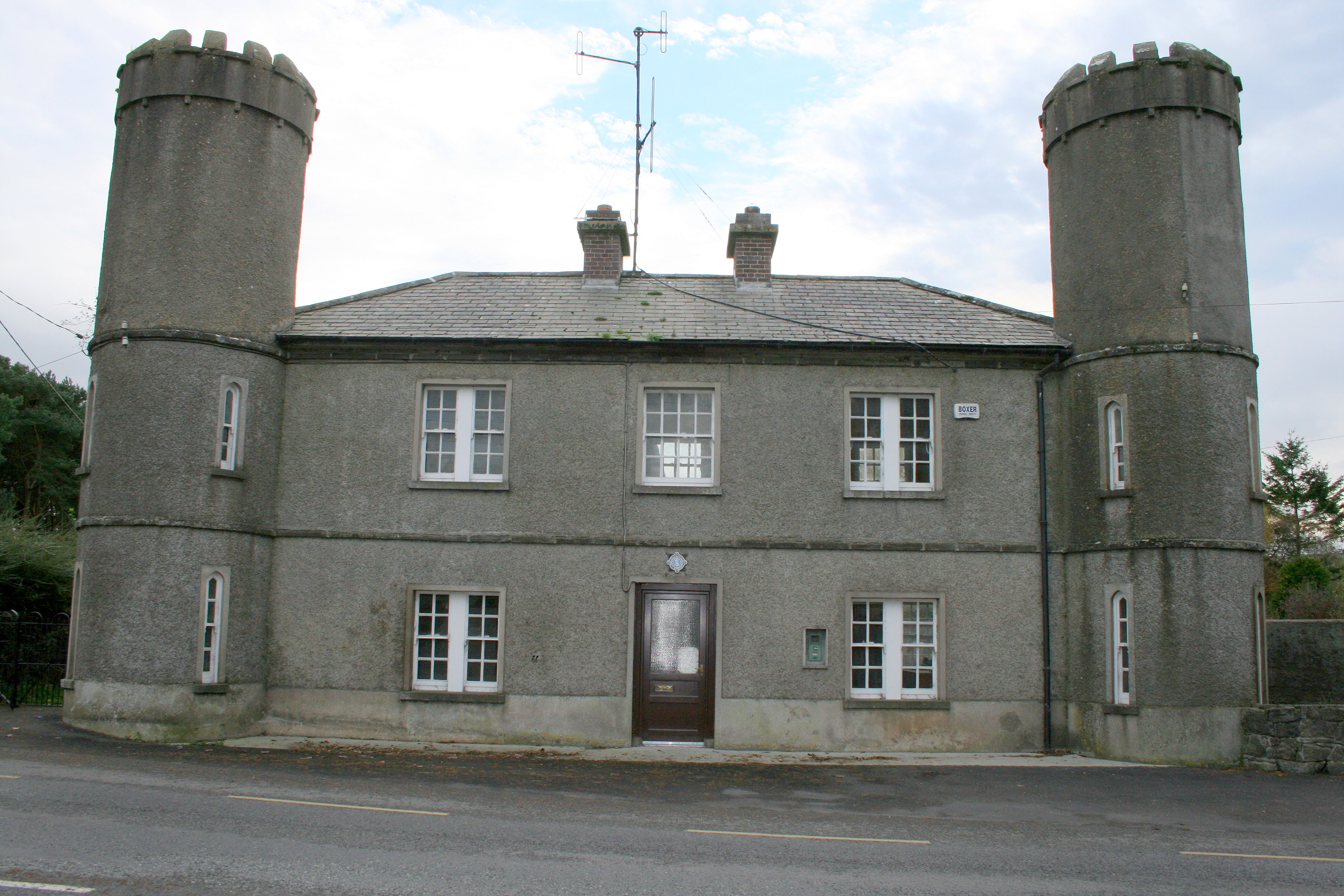 Bennetsbridge, County Kilkenny, Ireland - fortified police station